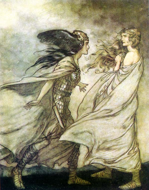 "The ring upon thy hand— / ... ah, be implored! / For Wotan fling it away!"